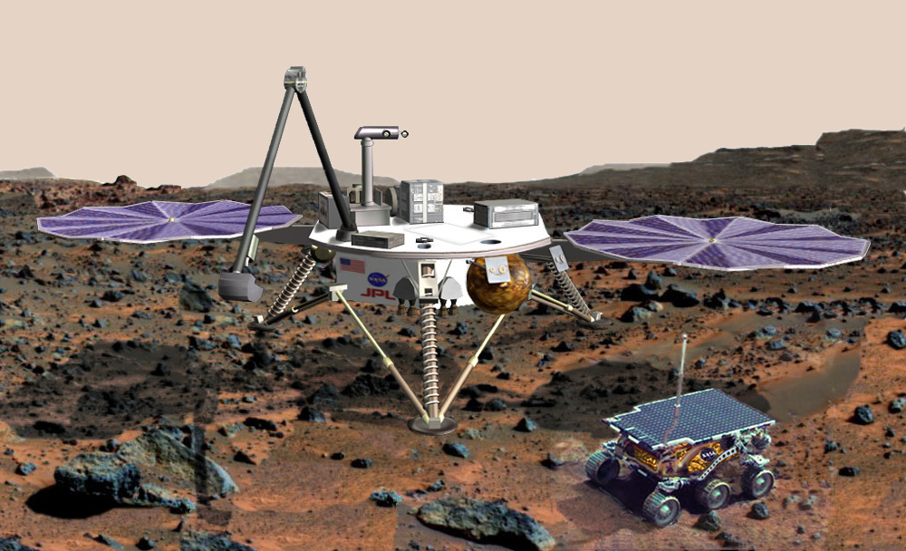 Mars Surveyor 2001 lander with Marie Curie rover. This mission was cancelled.